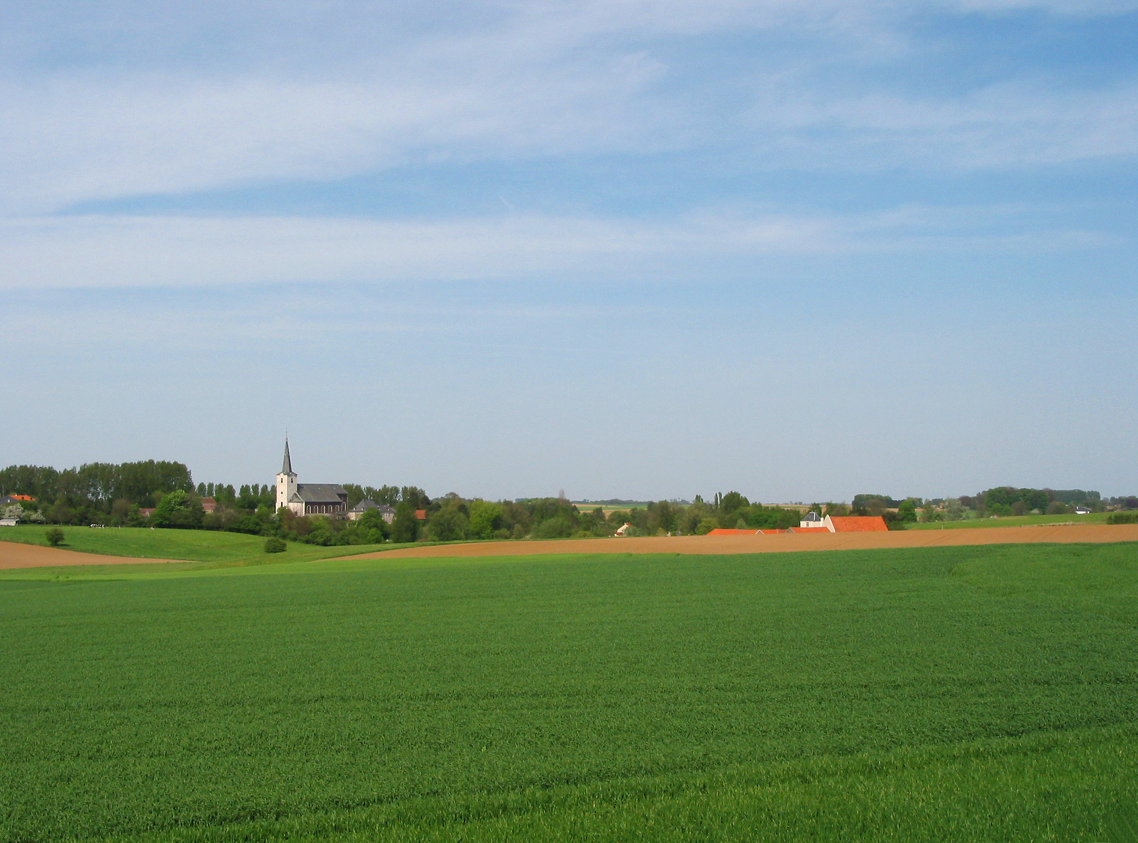 Mélin (Belgium), the village in the springtime.